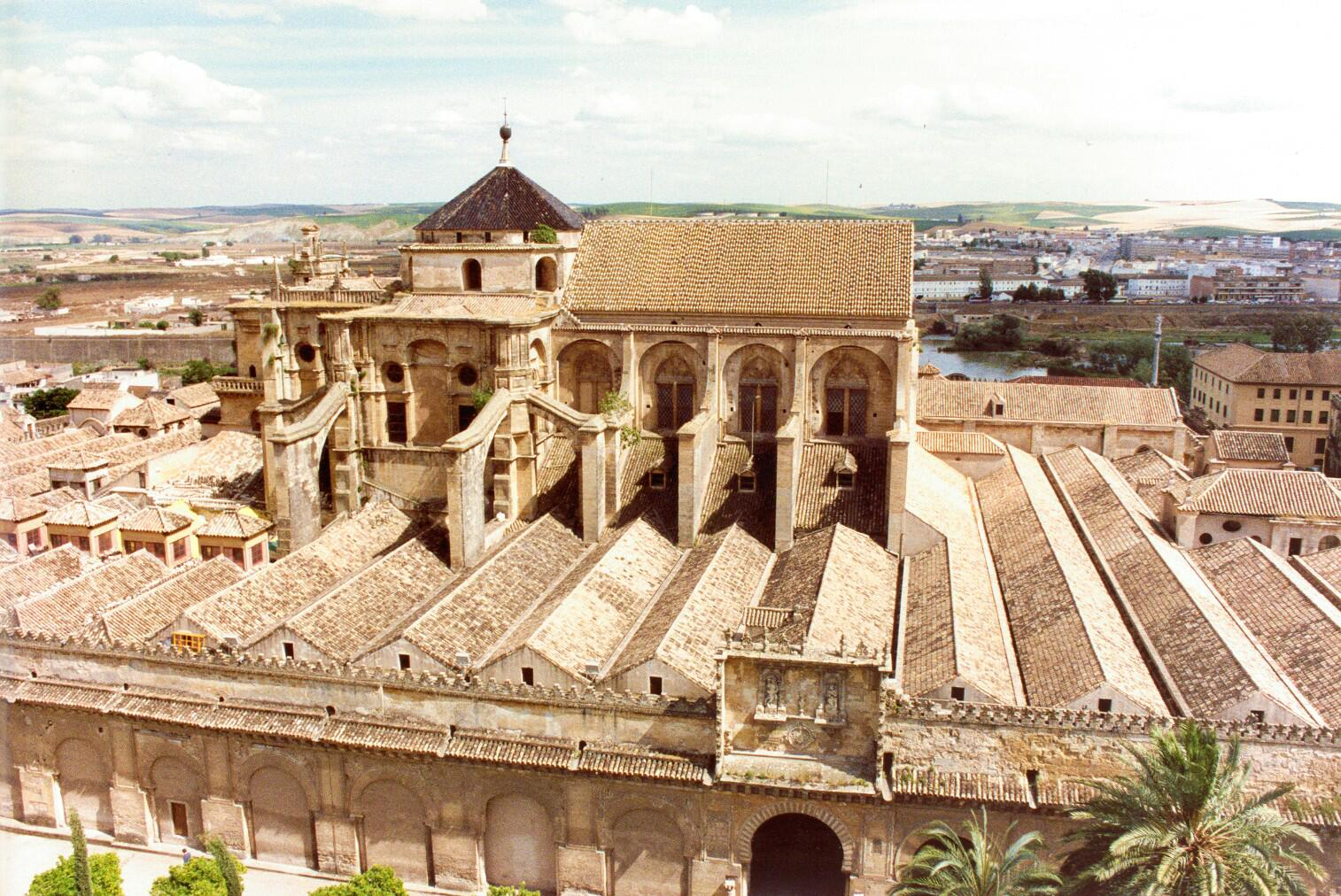 Tiled roofs of the Mosque-Cathedral of Córdoba. 8th century Islamic architecture of Al-Andalus — in Cordoba, Andalusia, Spain.